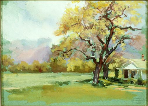 Summer Place. Watercolor. Marietta, GA.